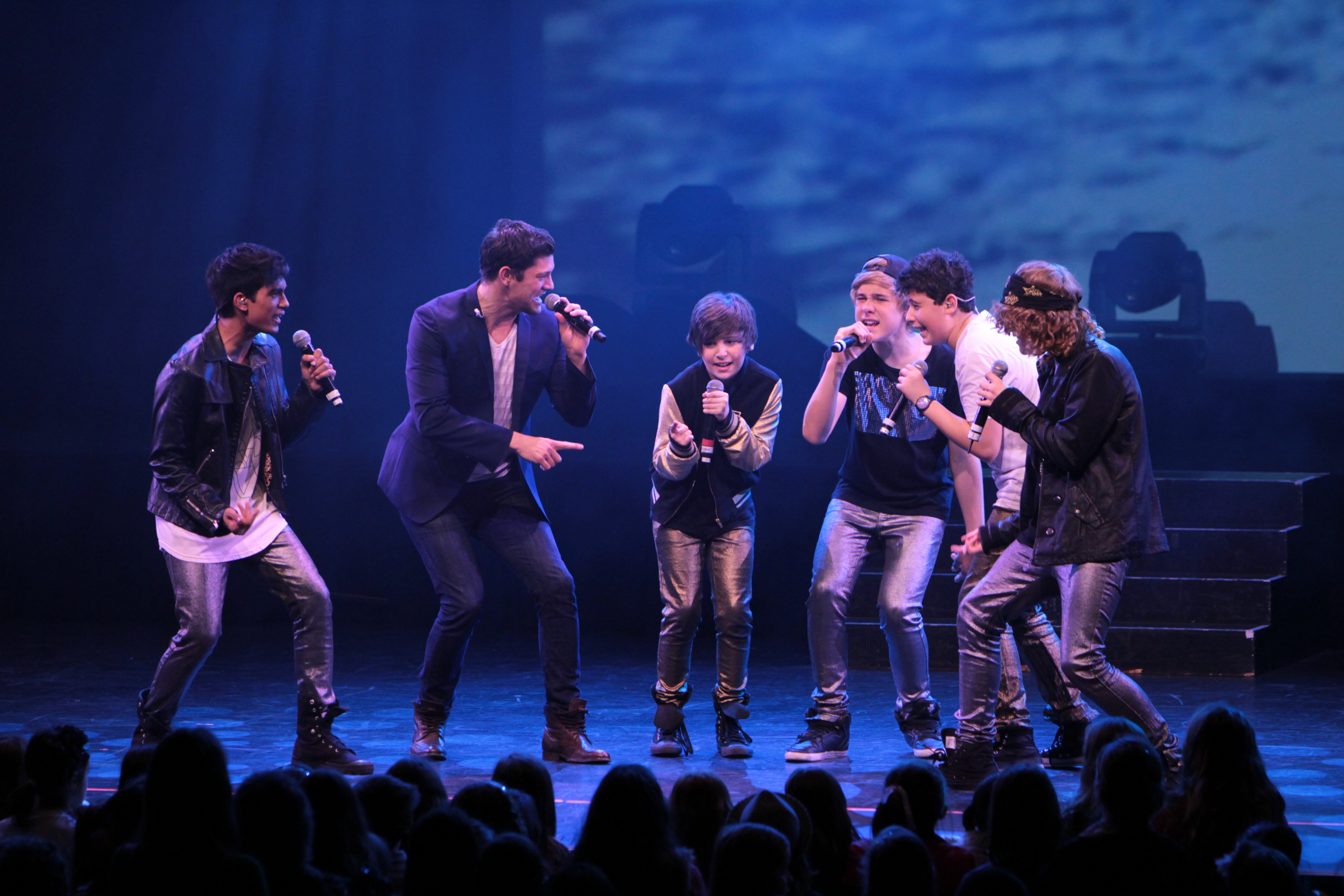 Photo